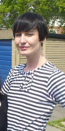 Erin O'Connor, photographed on 9 May 2008 in Aldridge